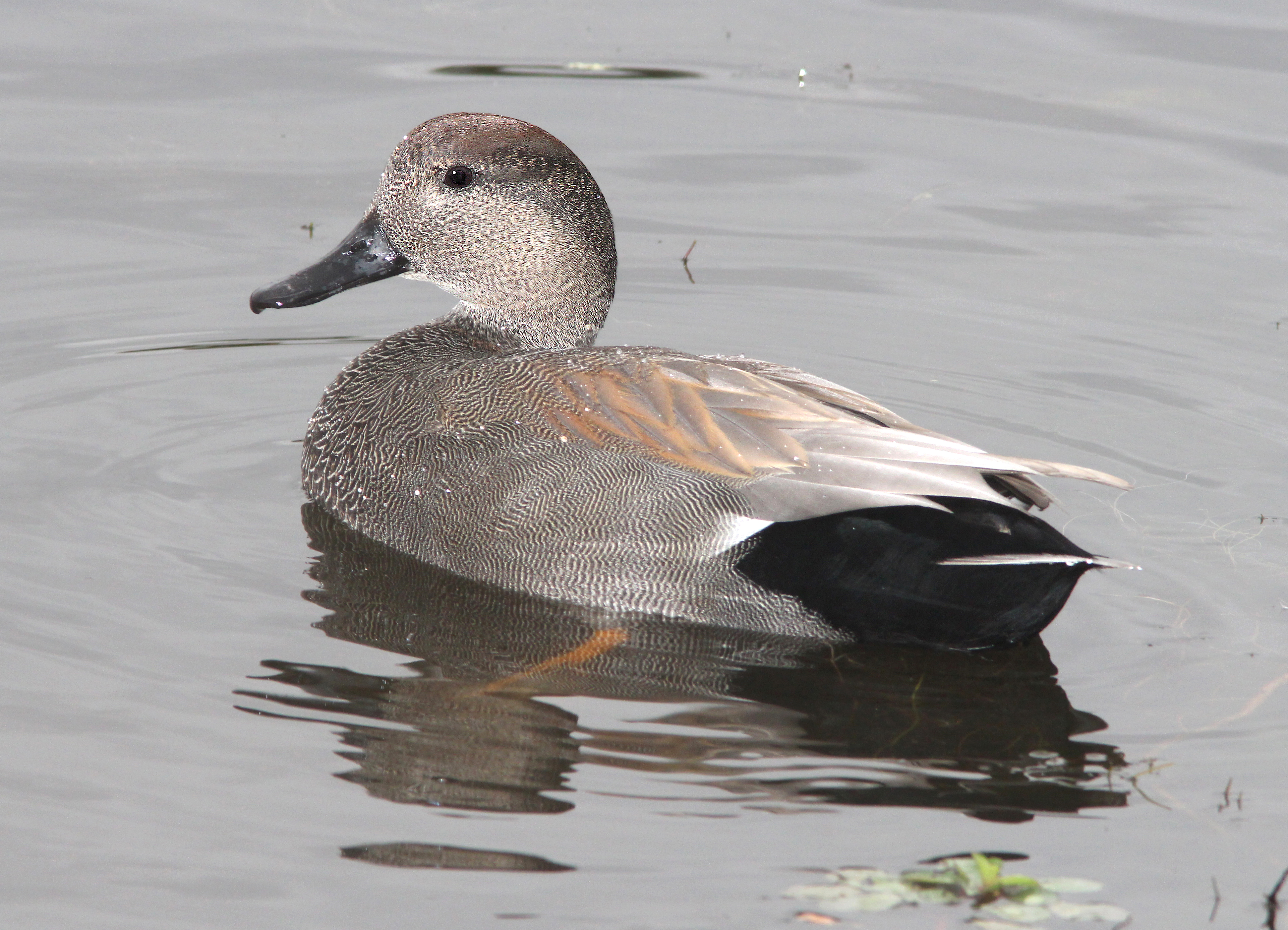 ABA AREA BIRDS: My Photo "Life List"